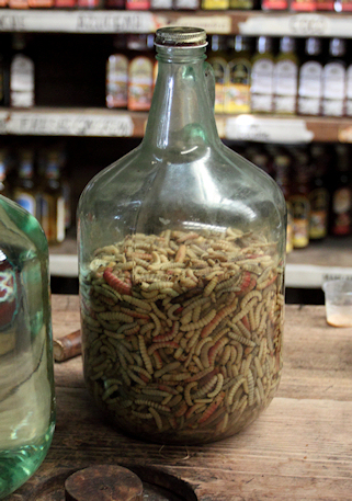 Gusano de Maguey in a bottle, waiting to be added to finished Mezcal. Location: Oaxaca, Mexico.